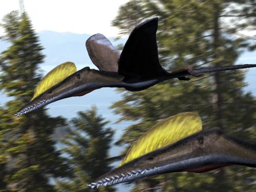 Cuspicephalus